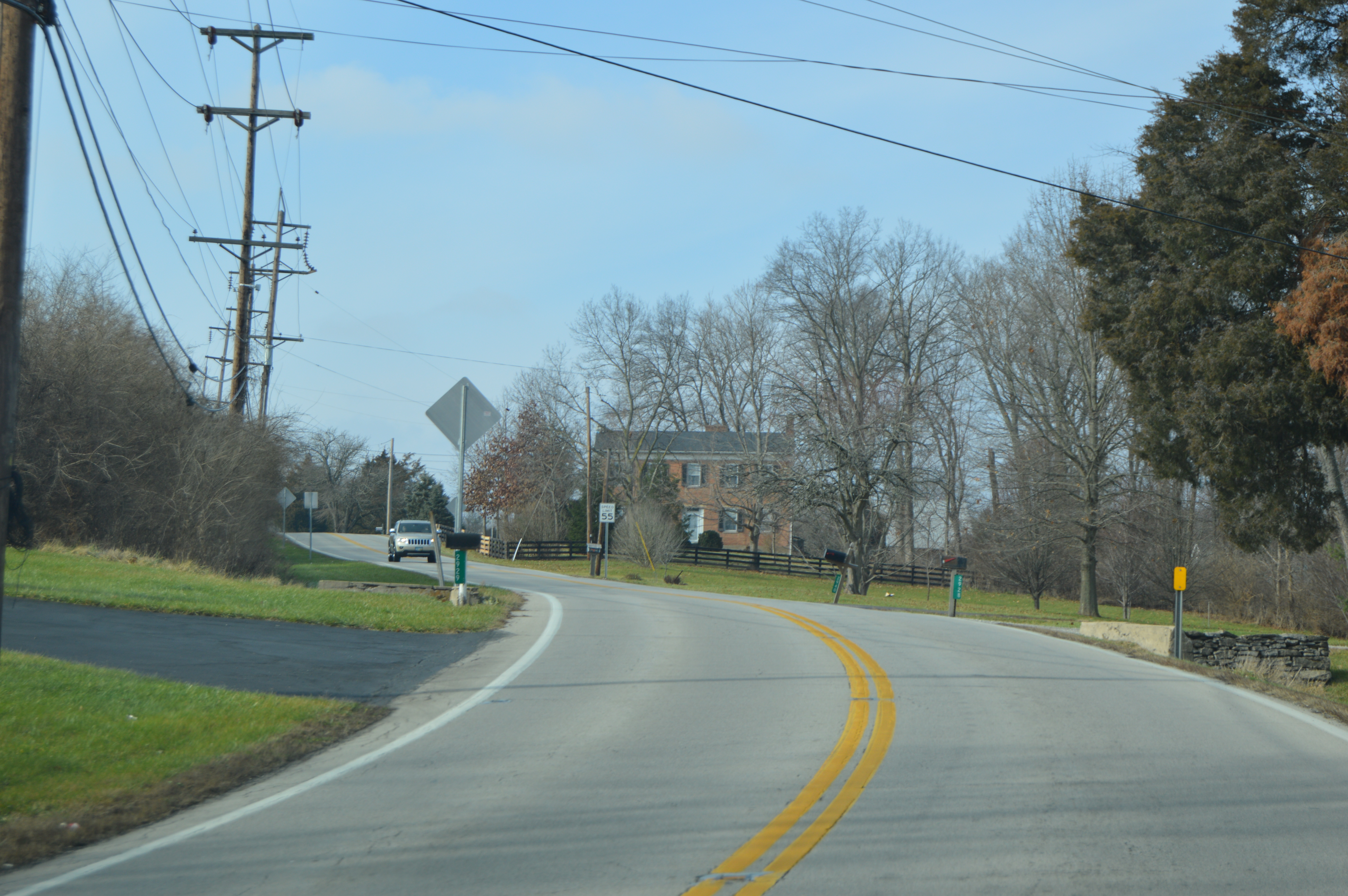 View from the east of the Cochran Farmhouse, located on the northern side of State Route 129 west of Millville in Ross Township, Hamilton County, Ohio, United States. Built in 1836, it is listed on the National Register of Historic Places.